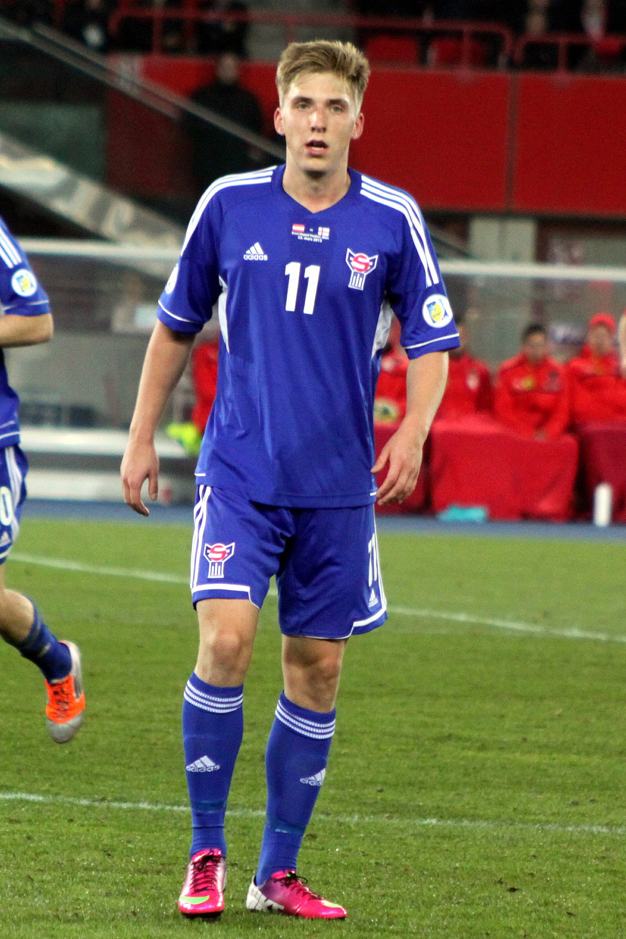 2014 FIFA World Cup qualification (UEFA), Group C: Austria national football team vs. Faroe Islands national football team 6:0 in the Ernst-Happel-Stadion in Vienna at 2013-03-22. – The photo shows .